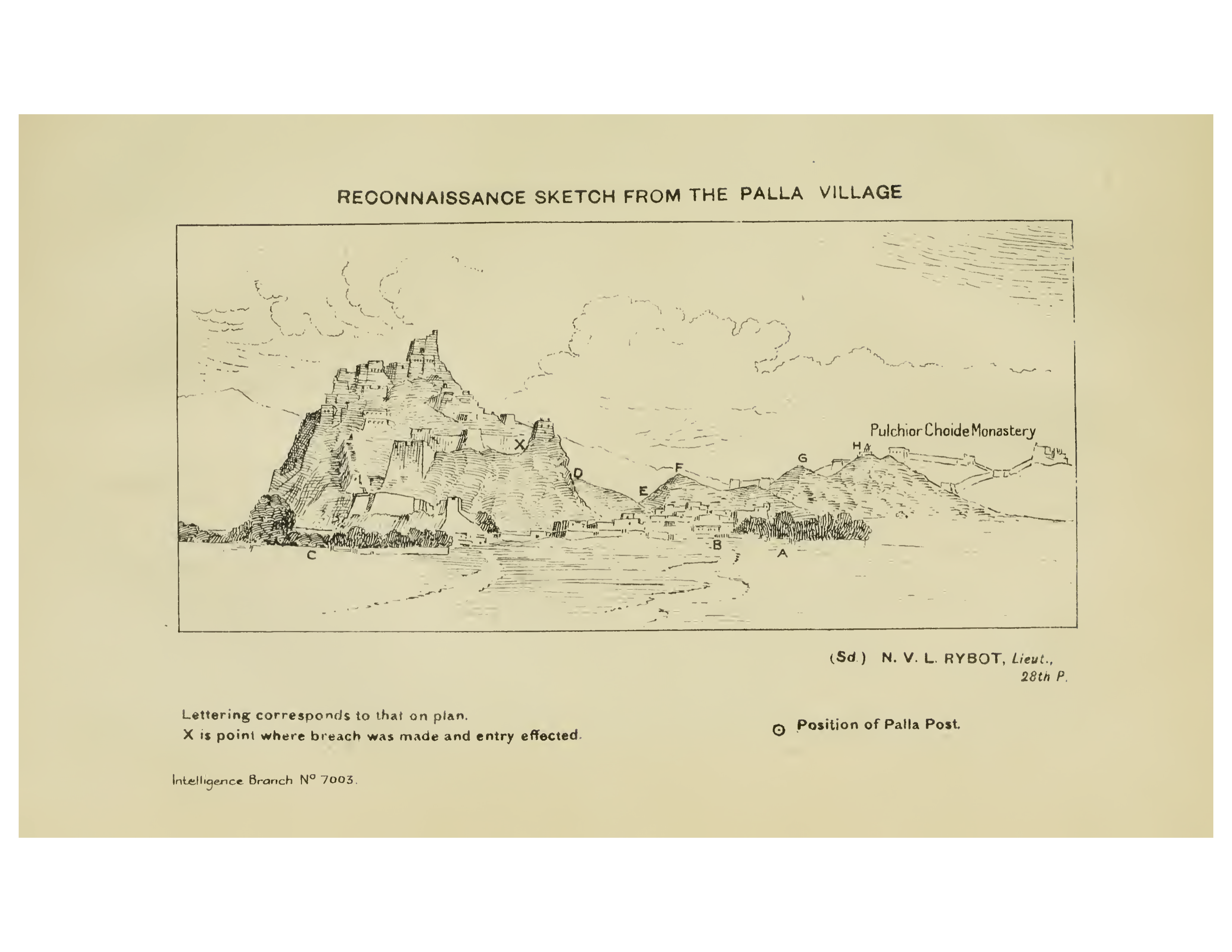 Reconnaissance sketch of Gyantse Dzong, Tibet by British battery officer during British expedition to Tibet (c. 1904)